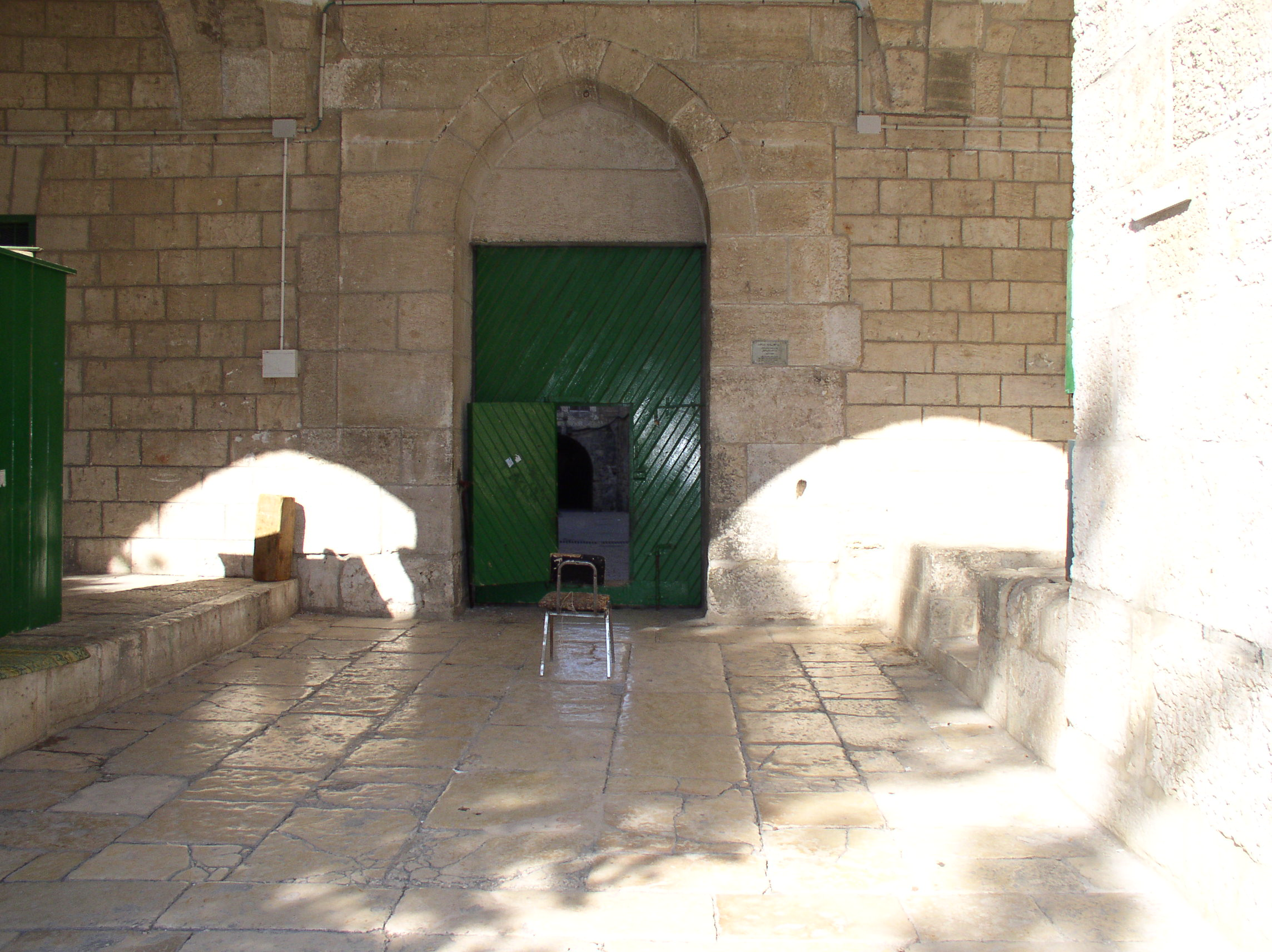 Al-Aqsa Mosque